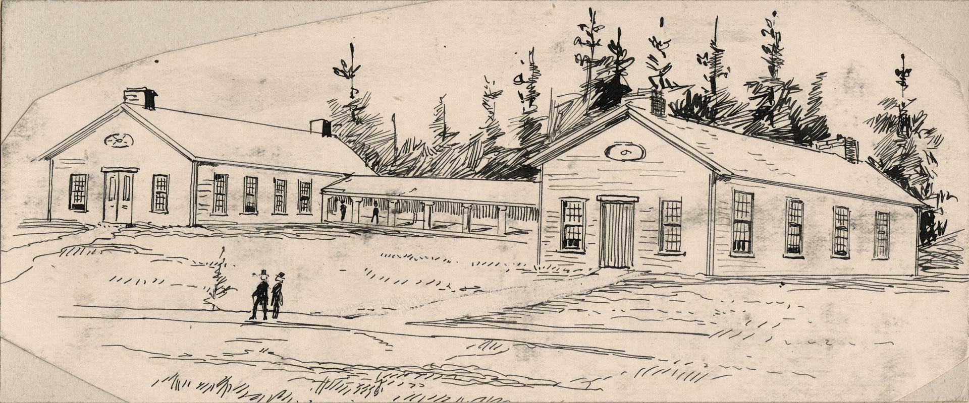 A 95 x 203 mm pen and ink drawing of the first Upper Canada Parliament, destroyed in the War of 1812. The site was first developed for the colony's Parliament commencing in 1794, and the buildings were burned to the ground by American forces on 27 April 1813. This drawings dates to the 1890s. An interpretive centre was opened on the site, located in what is now Toronto, Ontario, Canada, in 2012. According to the displays in the centre, the buildings were one storey, red brick, measuring 24 by 40 feet, built 75 feet apart. The walkway connecting the two building was made of wood and added later. Committees met in smaller wooden outbuildings, also added later.